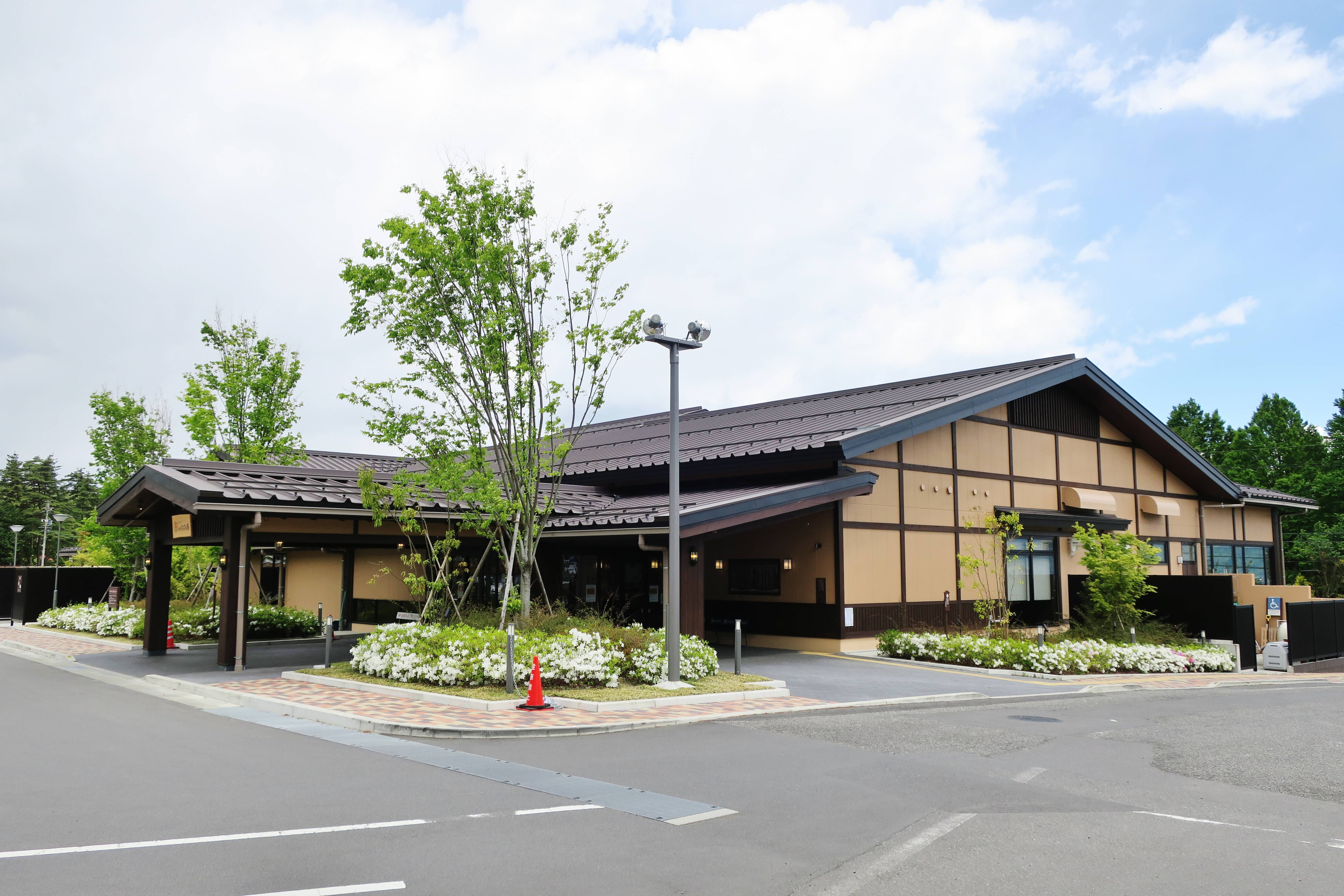 Azumino Shakunage no yu.